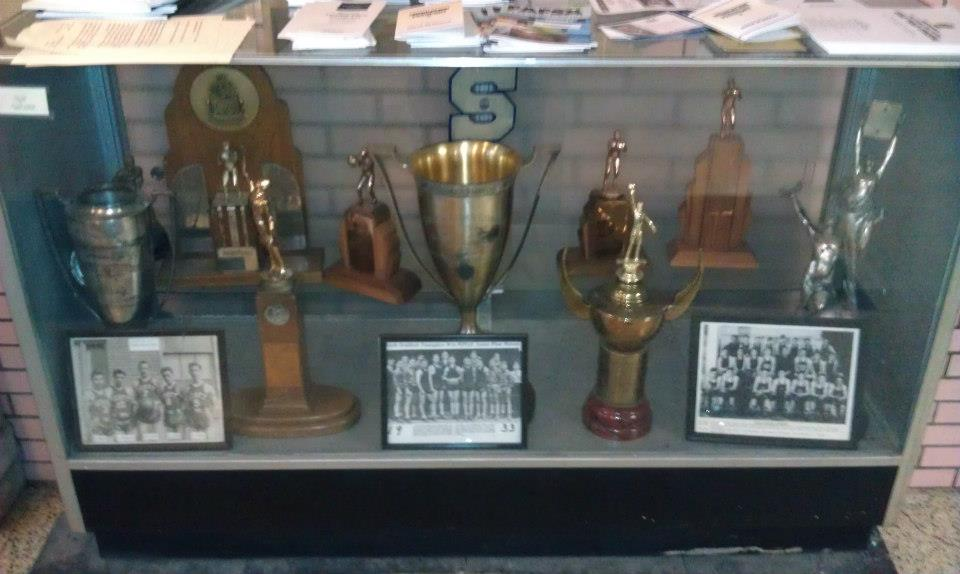 North Braddock Scott High School sports accomplishments are displayed at the North Braddock Municipal Building.